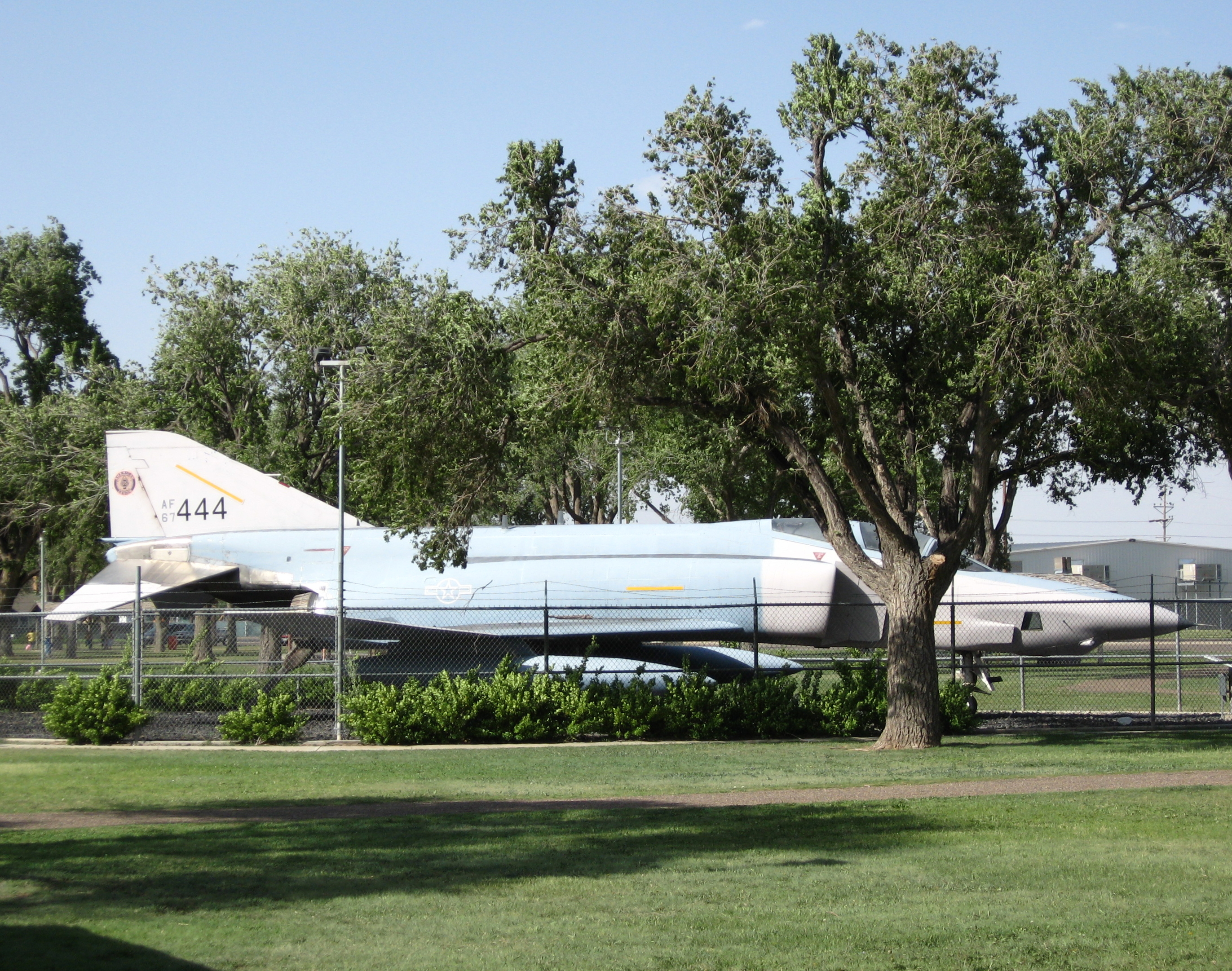 A former U.S. Air National Guard McDonnell RF-4C-34-MC Phantom II reconnaissance plane (s/n 67-0444) on display at the City Park, Dumas, Texas, USA on 23 May 2008.